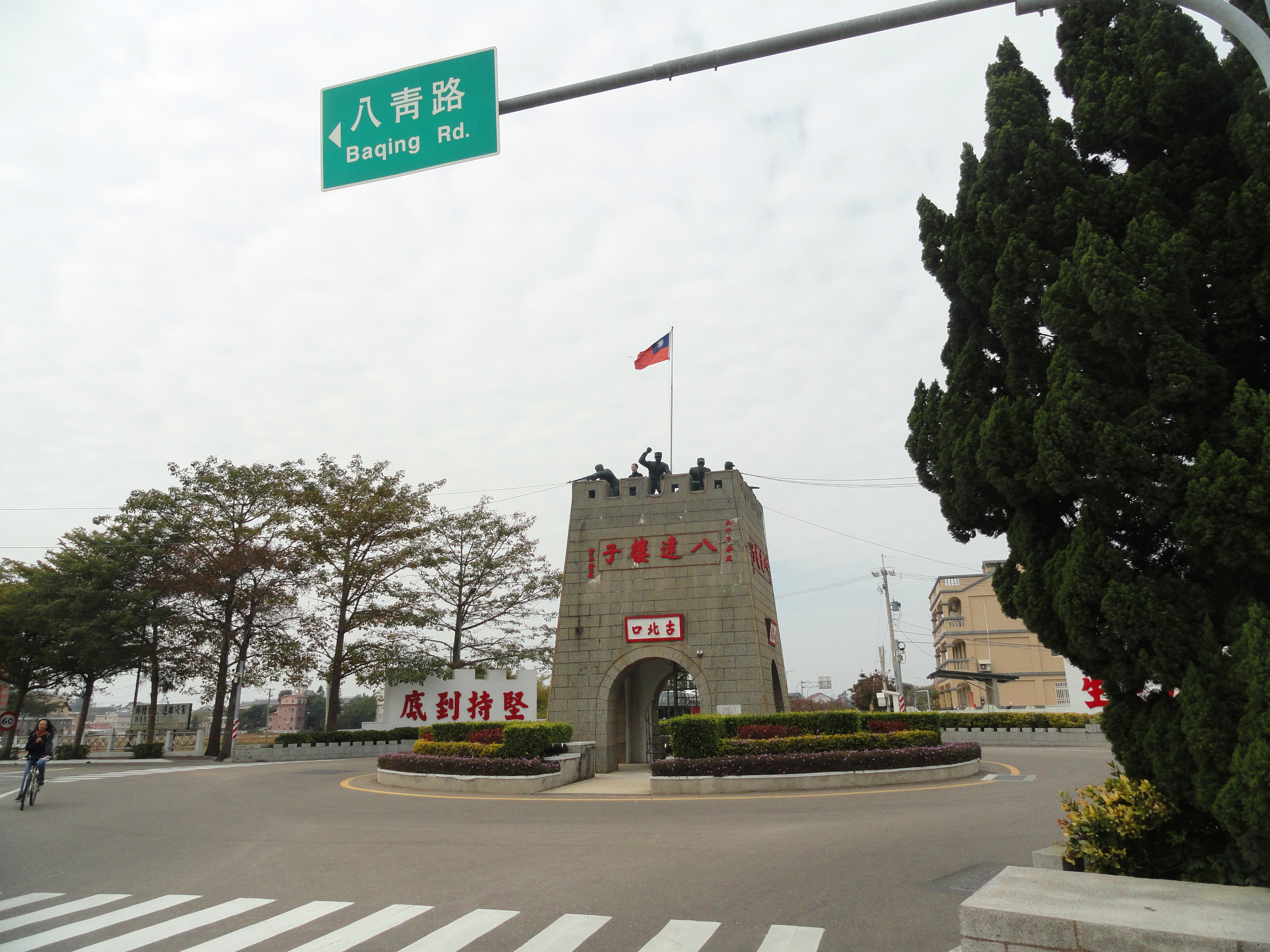 Bada Tower中文（中国大陆）: 金门烈屿乡八达楼子